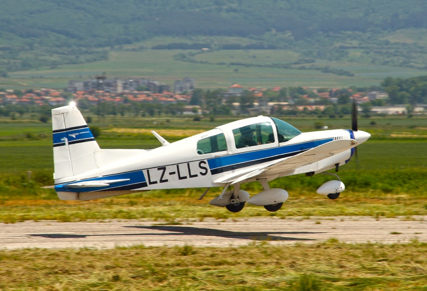 Grumman American AA-5 Traveler during takeoff